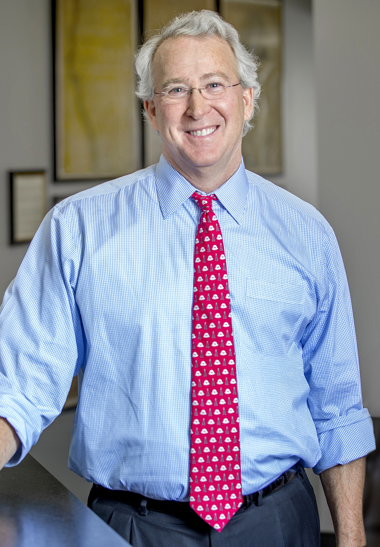 Headshot of Aubrey McClendon, CEO of American Energy Partners